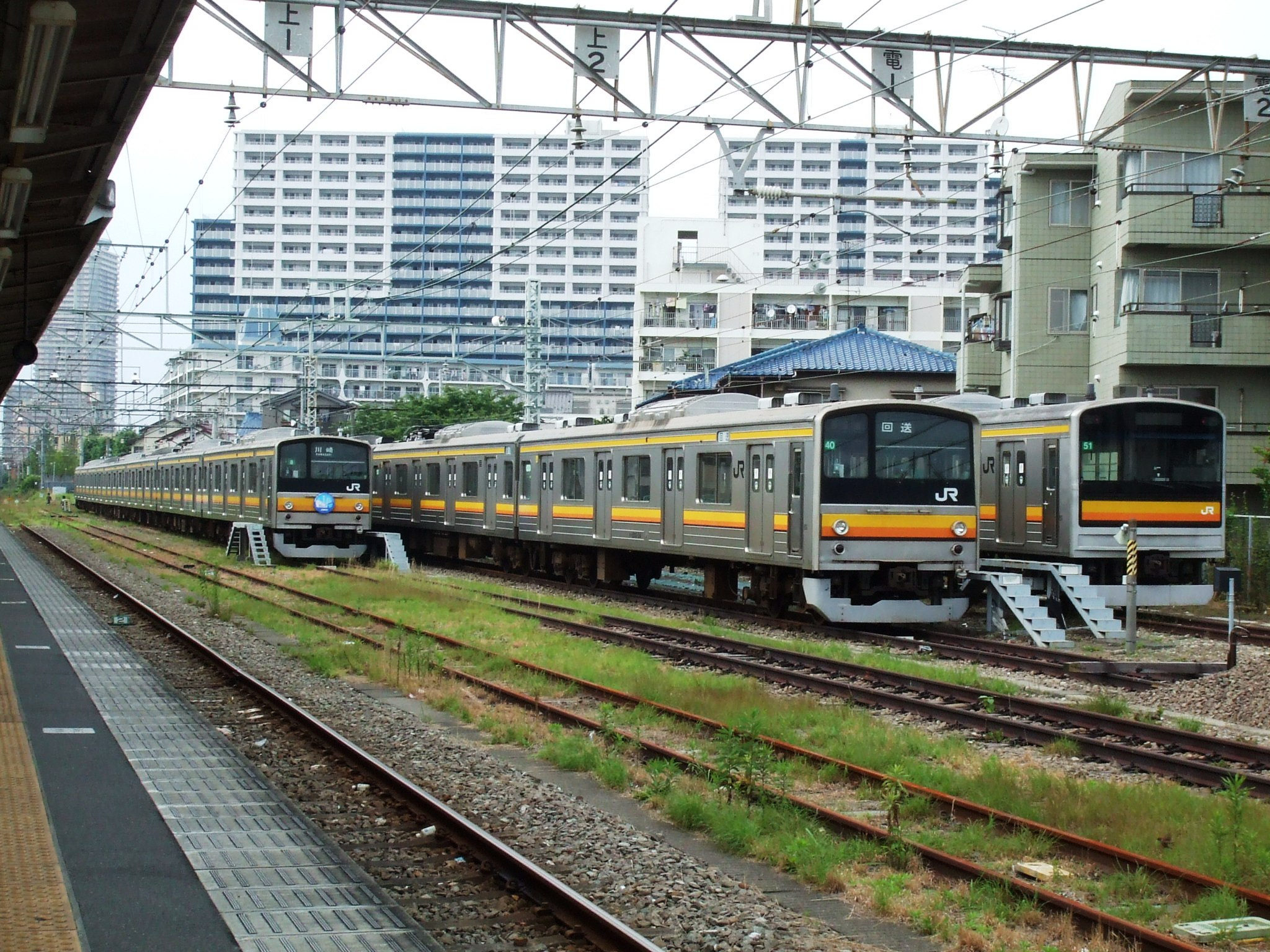 JR East 205 series EMUs stabled next to Yakō Station on the Nambu Line in Kanagawa Prefecture, Japan